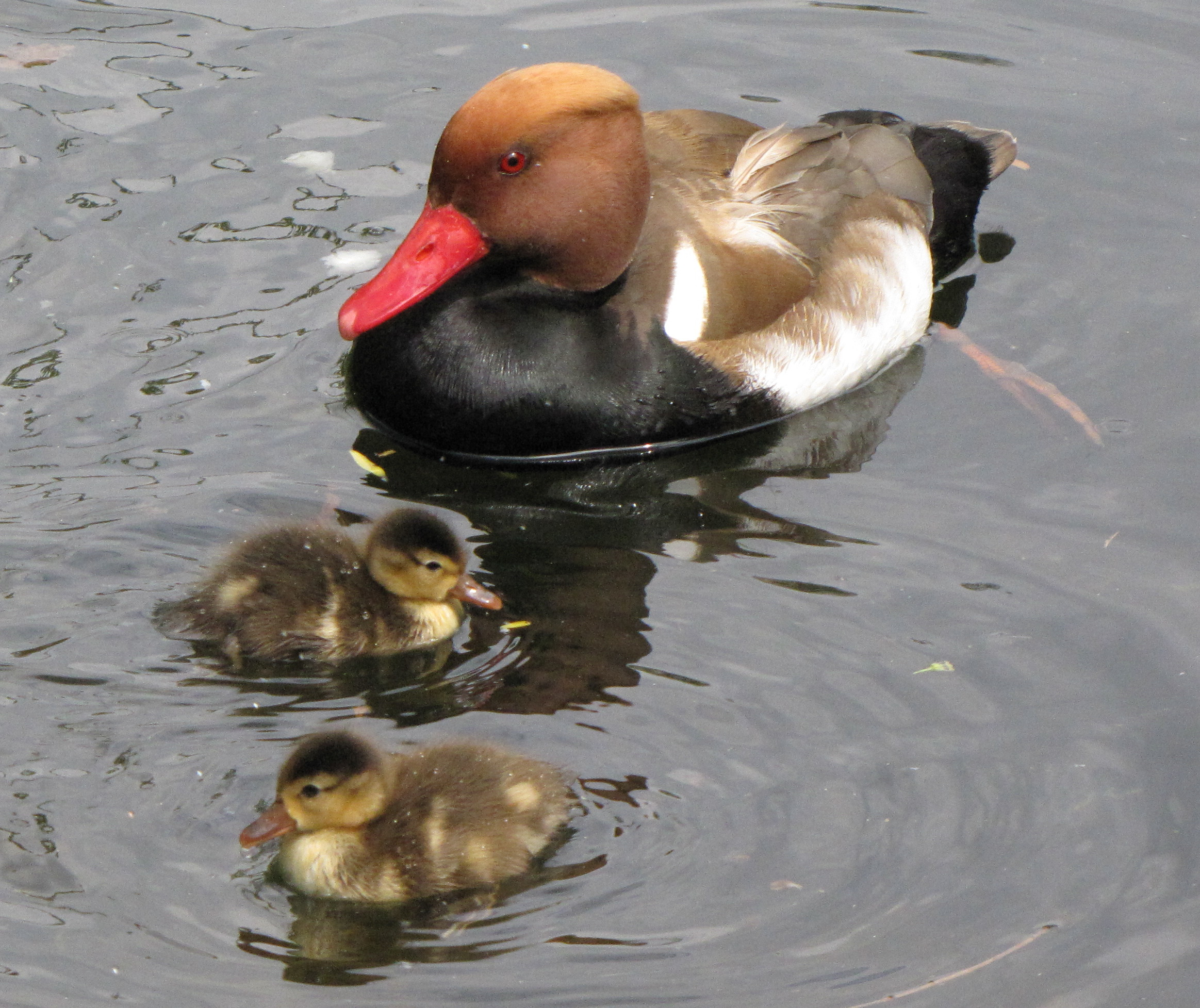 A male Red-crested Pochard with two ducklins at St James's Park, London, England.